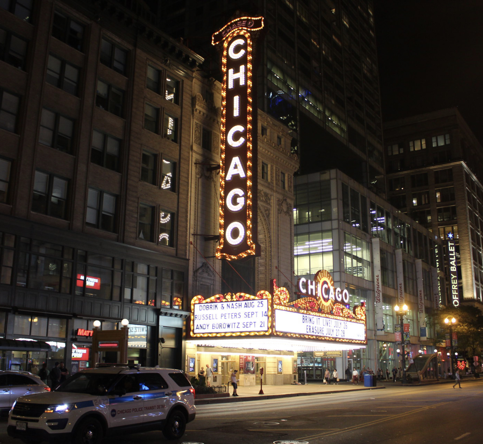 The Chicago Theatre at night in April 2019